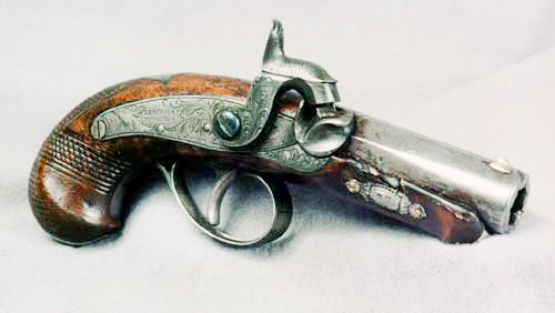 The Deringer of John Wilkes Booth. Firts uploaded to the English wiki under the same name by CrucifiedChrist Lupo 14:55, 17 May 2005 (UTC)